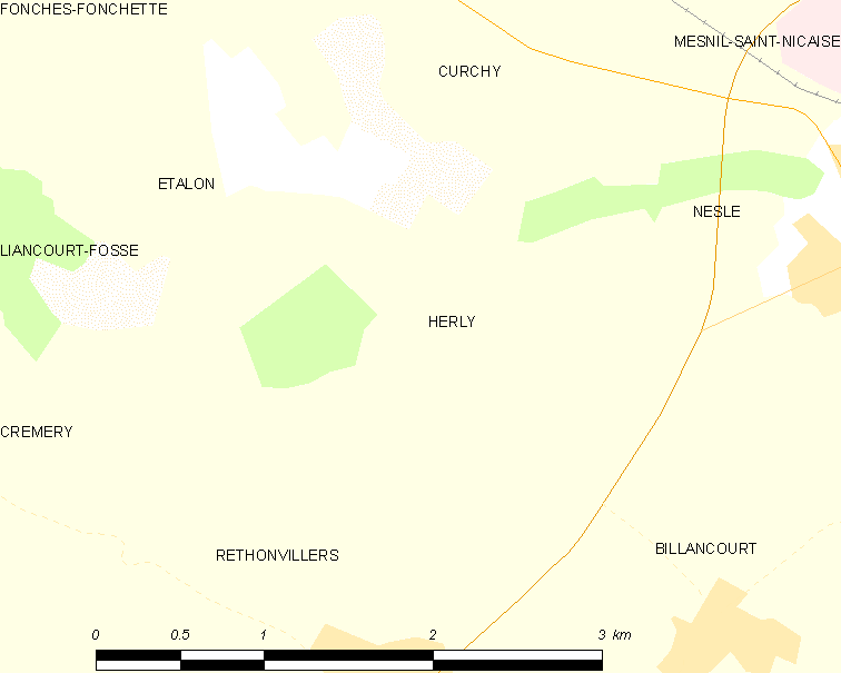 Map of French municipality Herly